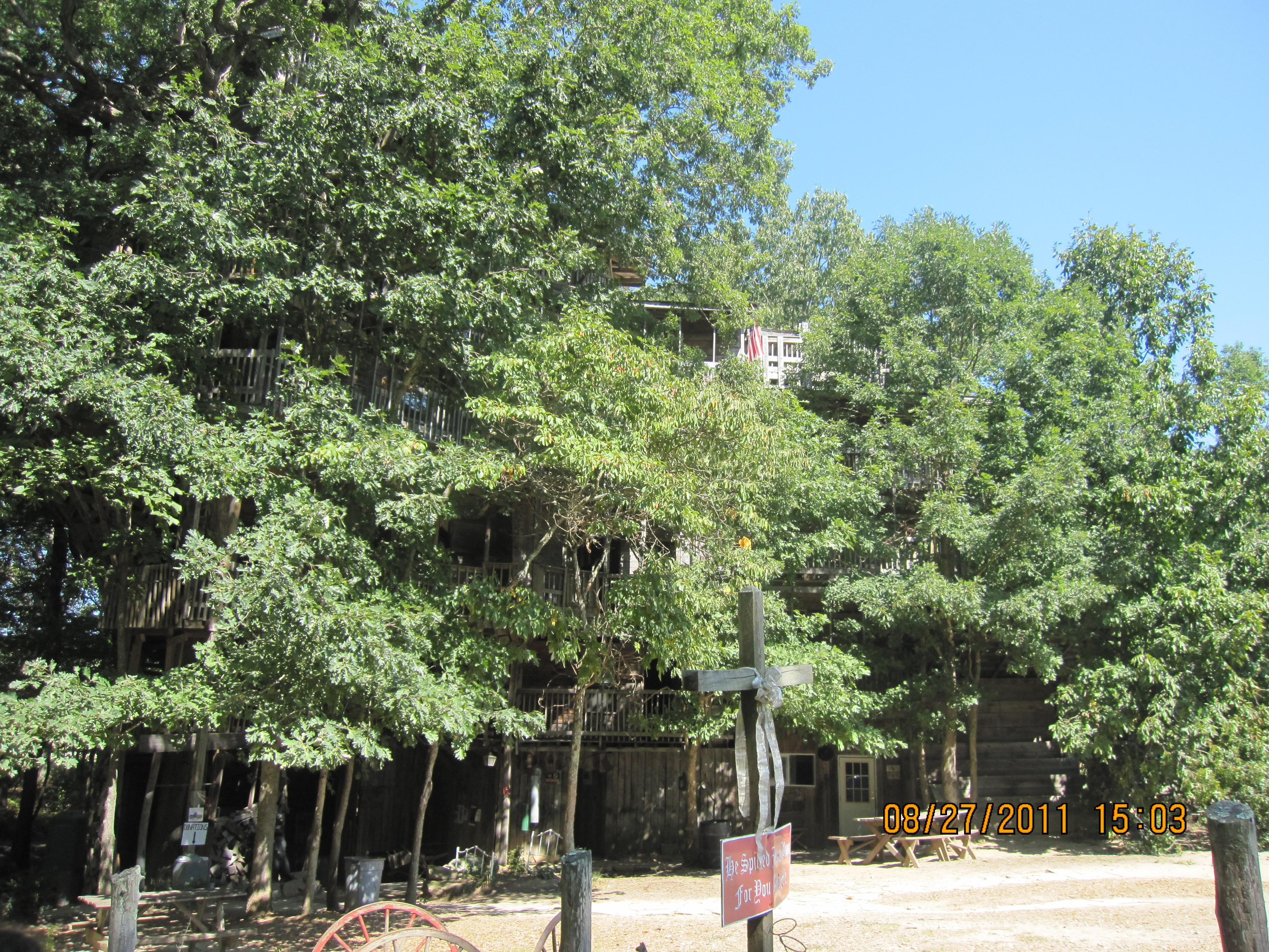 Horace Burgess's treehouse in Crossville, TN, often called "the world's largest", on August 27, 2011, about a year before the fire marshal closed it to the public.